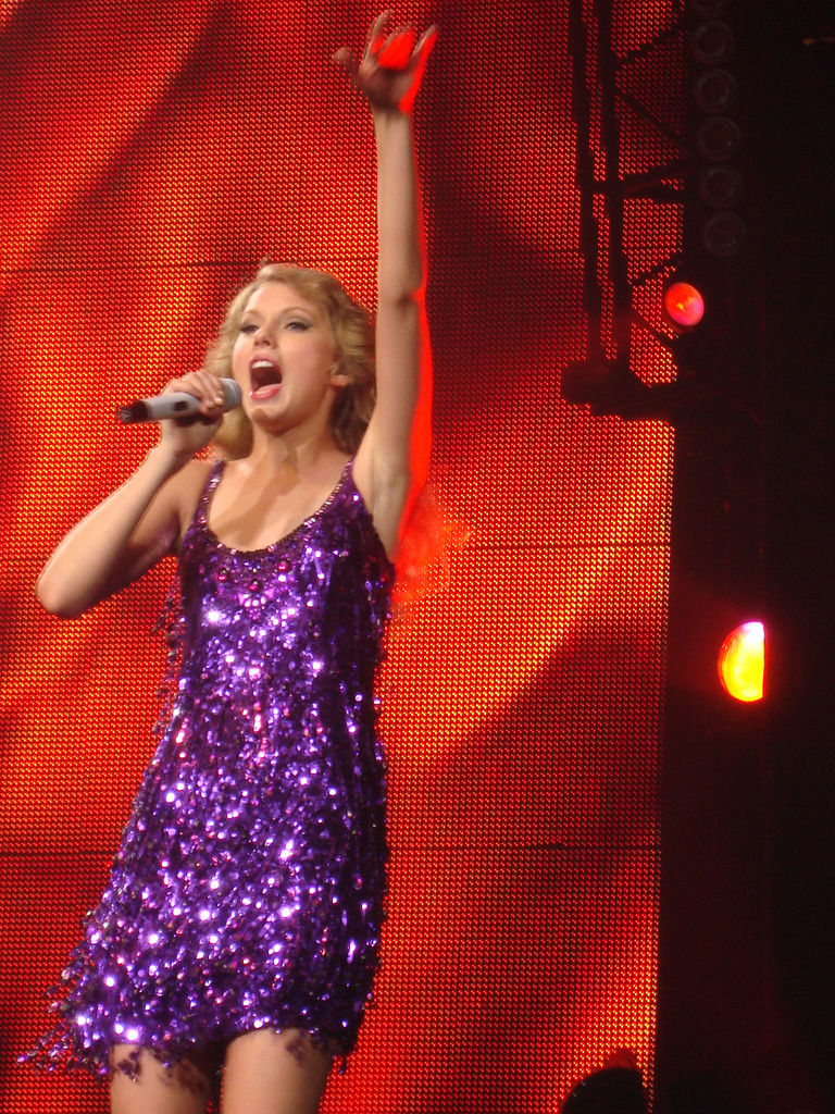 Country pop singer Taylor Swift performs on the Fearless Tour, wearing a violet dress.